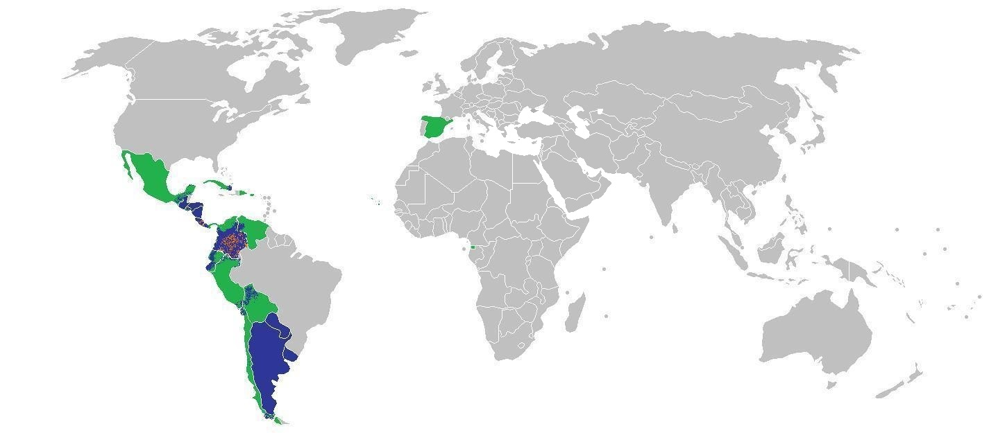 Blue: regions with voseo predominance. Green: regions with tuteo predominance. Orange: regions where usted is being used insted of vos or tu